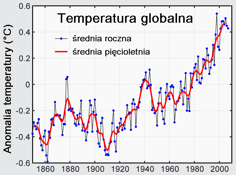 This image shows the instrumental record of global average temperatures as compiled by the Climatic Research Unit of the University of East Anglia and the Hadley Centre of the UK Meteorological Office. Data set HadCRUT3 was used. HadCRUT3 is a record of surface temperatures collected from land and ocean-based stations. The most recent documentation for this data set is Brohan, P., J.J. Kennedy, I. Haris, S.F.B. Tett and P.D. Jones (2006). "Uncertainty estimates in regional and global observed temperature changes: a new dataset from 1850". J. Geophysical Research 111: D12106. Following the common practice of the IPCC, the zero on this figure is the mean temperature from 1961-1990.